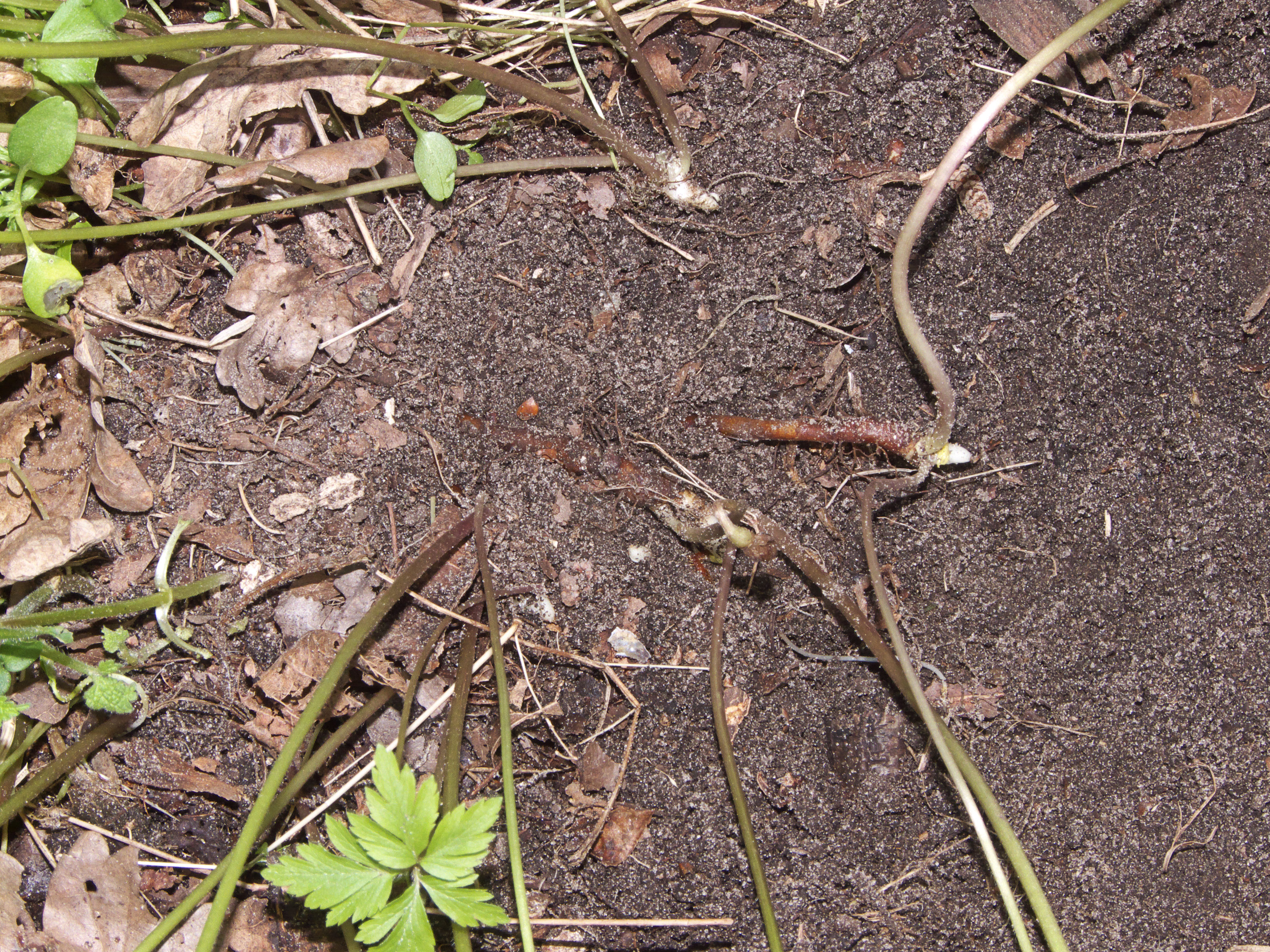 Anemone_nemorosa rhizomes